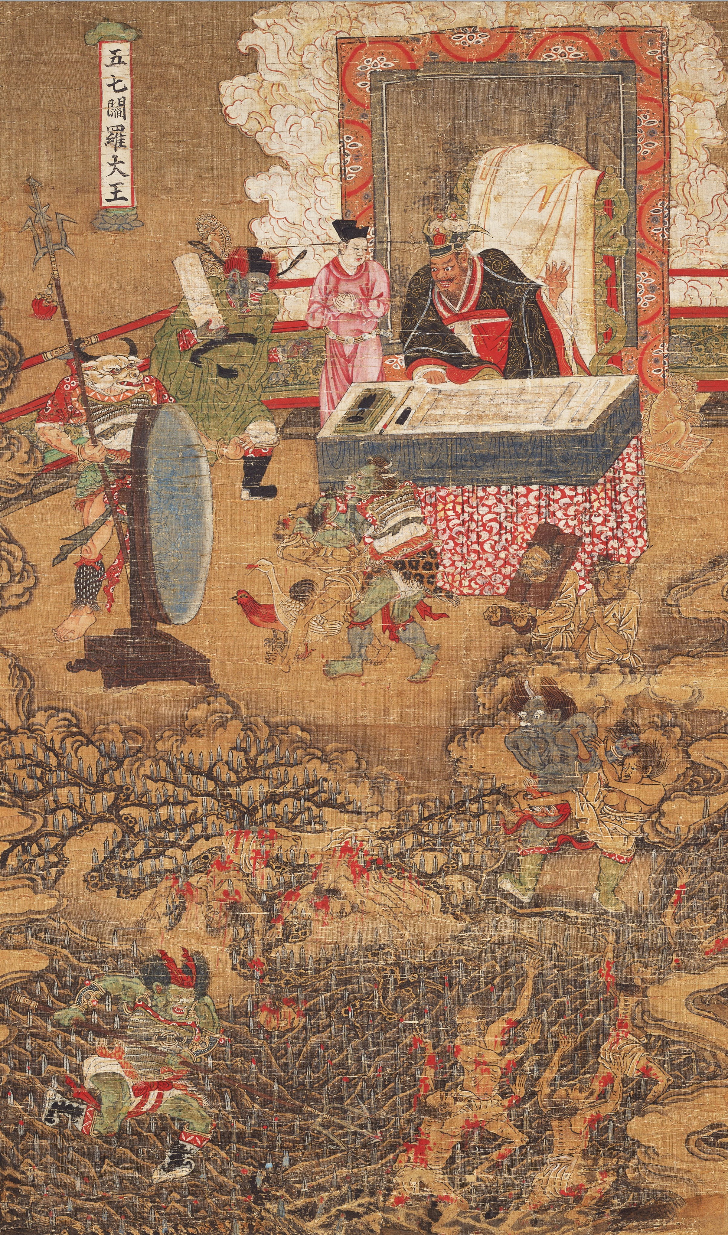 Ten Kings of Hell by Riku Chuen, Nara National Museum, Japan